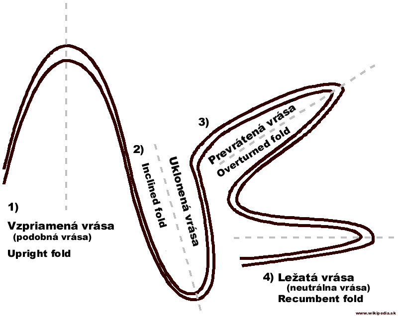 Fold clasification depending on angle of fold axial surface